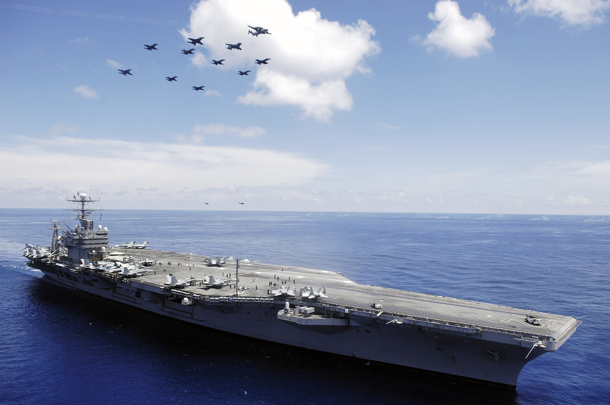 The U.S. Navy aircraft carrier USS Abraham Lincoln (CVN-72) and aircraft from Carrier Air Wing 2 (CVW-2) perform an aerial demonstration in the South China Sea on 8 May 2006. Abraham Lincoln was deployed to the Western Pacific from 27 February to 8 August 2006.